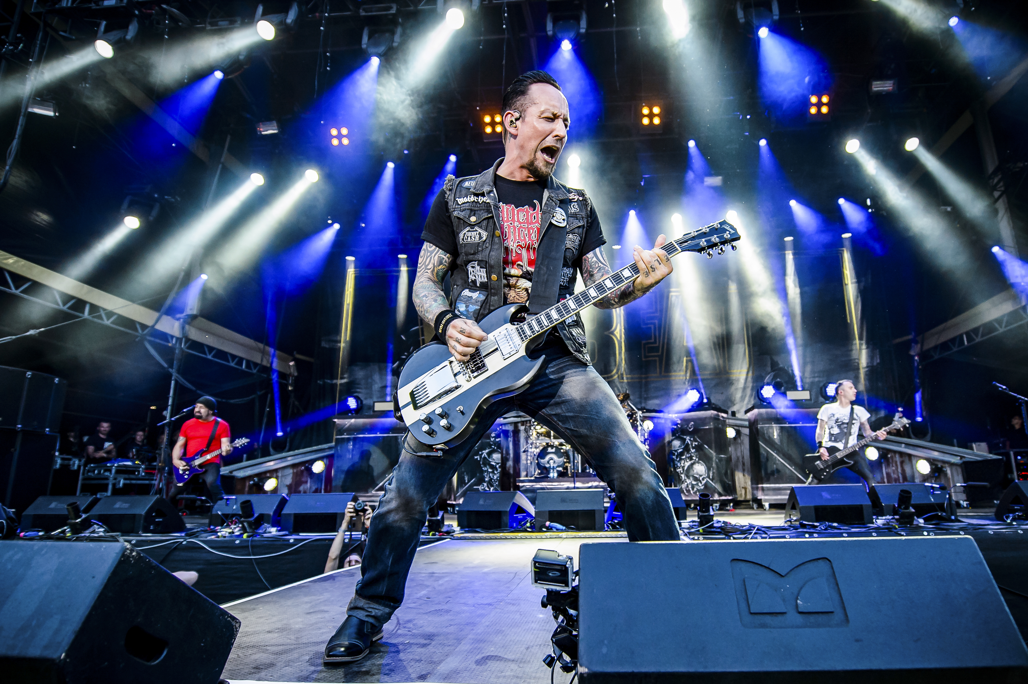 Volbeat; Citadel Music Festival 2016